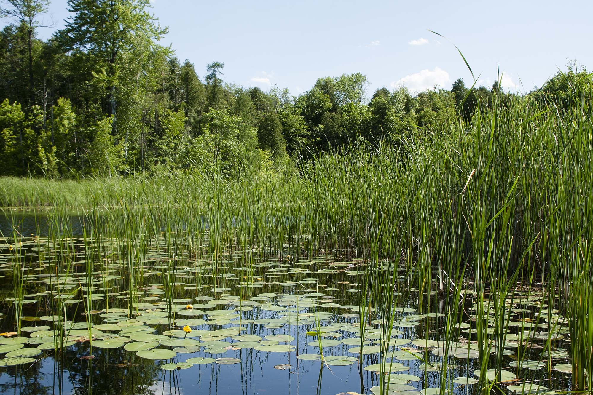 Taken from the pier at the end of the trail at the north side of Cedarburg Bog State Natural Area, in Ozaukee County, Wisconsin.